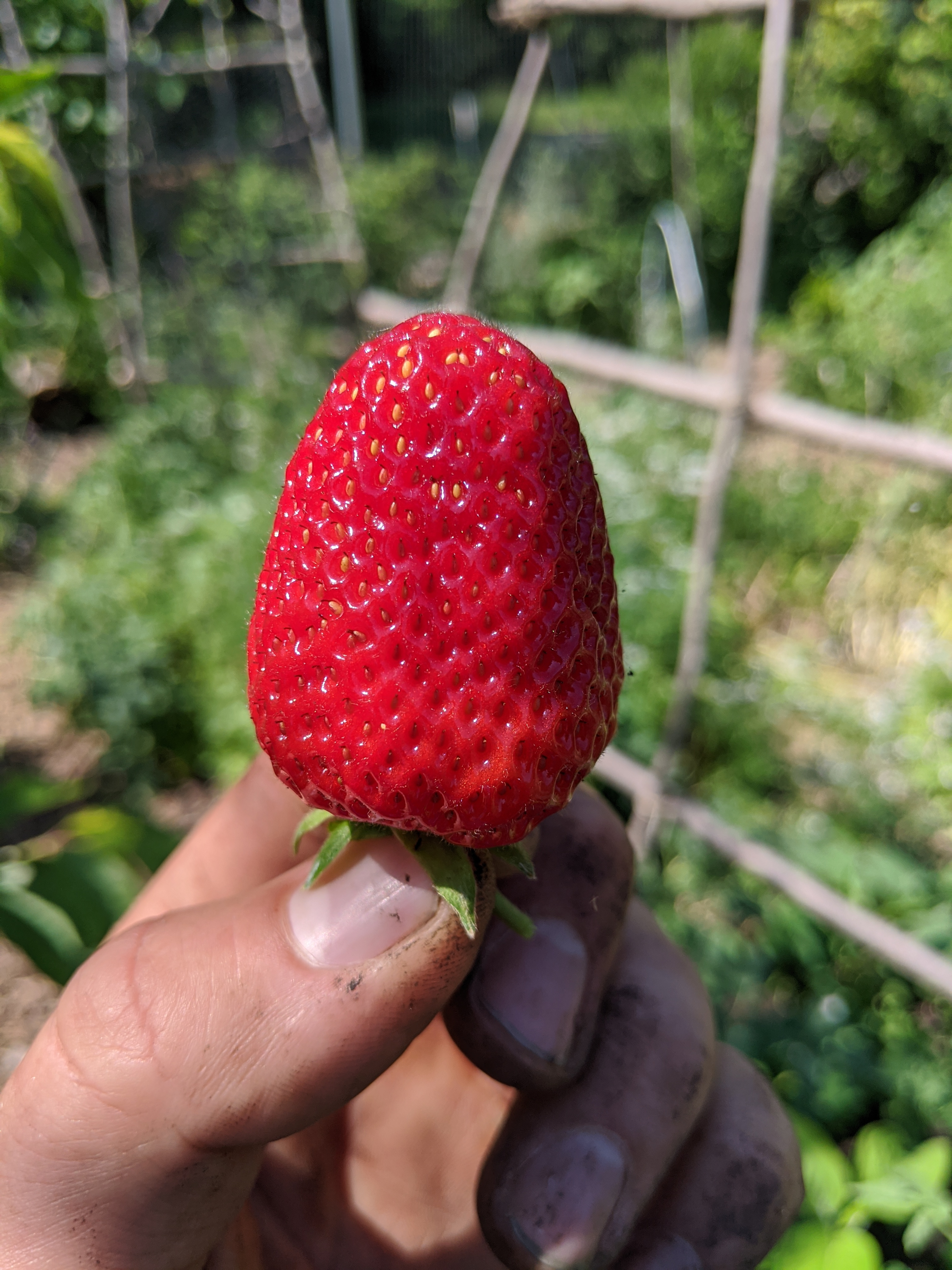 Organic Gardener Holding a Large June Bearing Strawberry